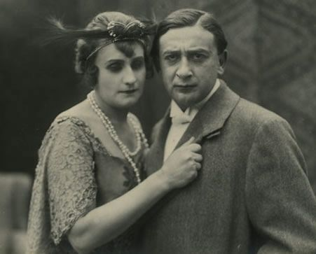 Scene from the Hungarian movie titled Akik életet cseréltek (released in 1919)